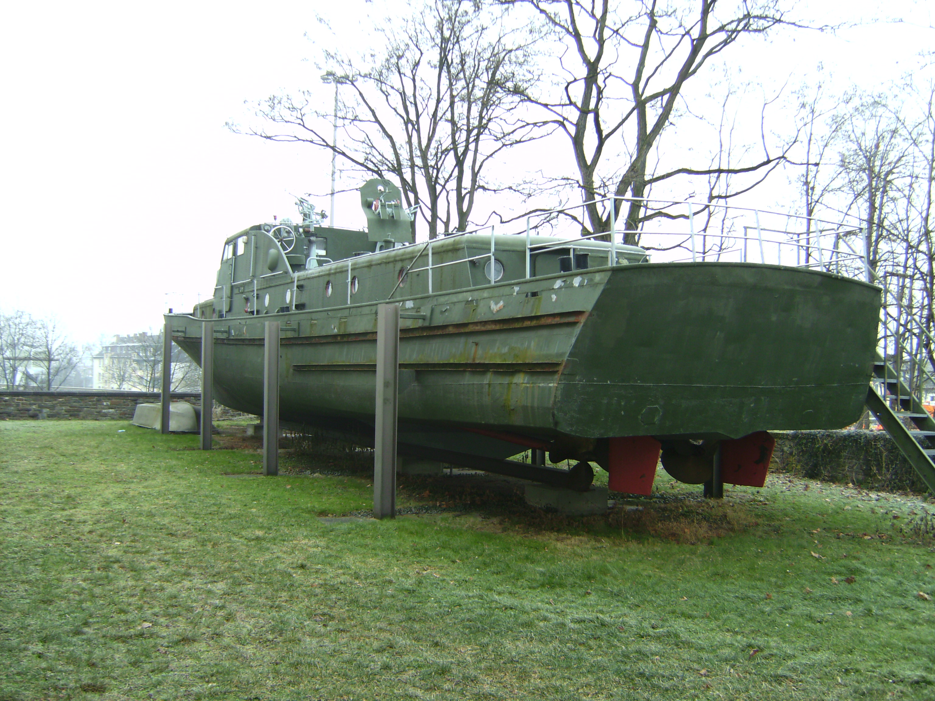 River Patrol Boat